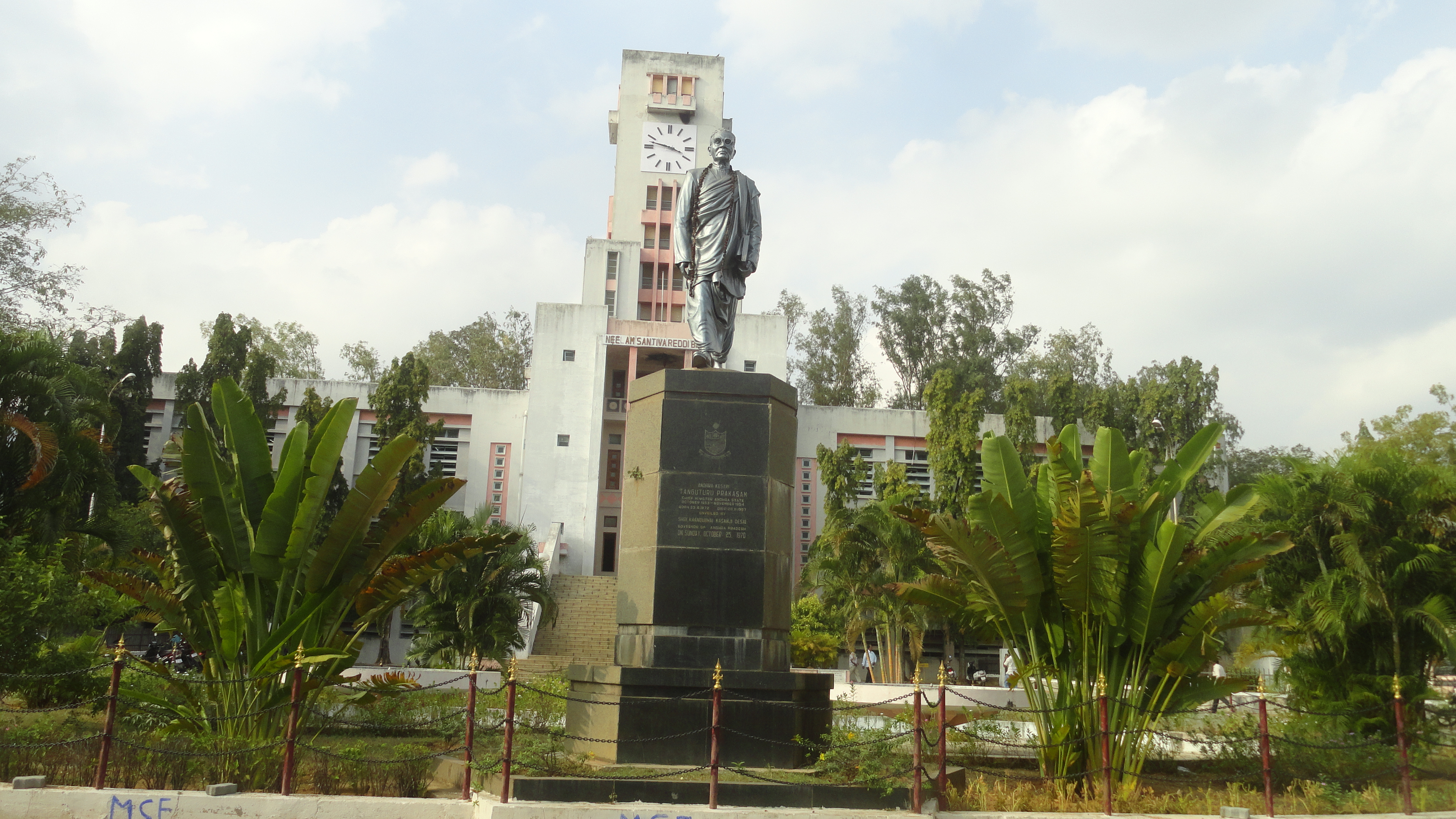 SV University